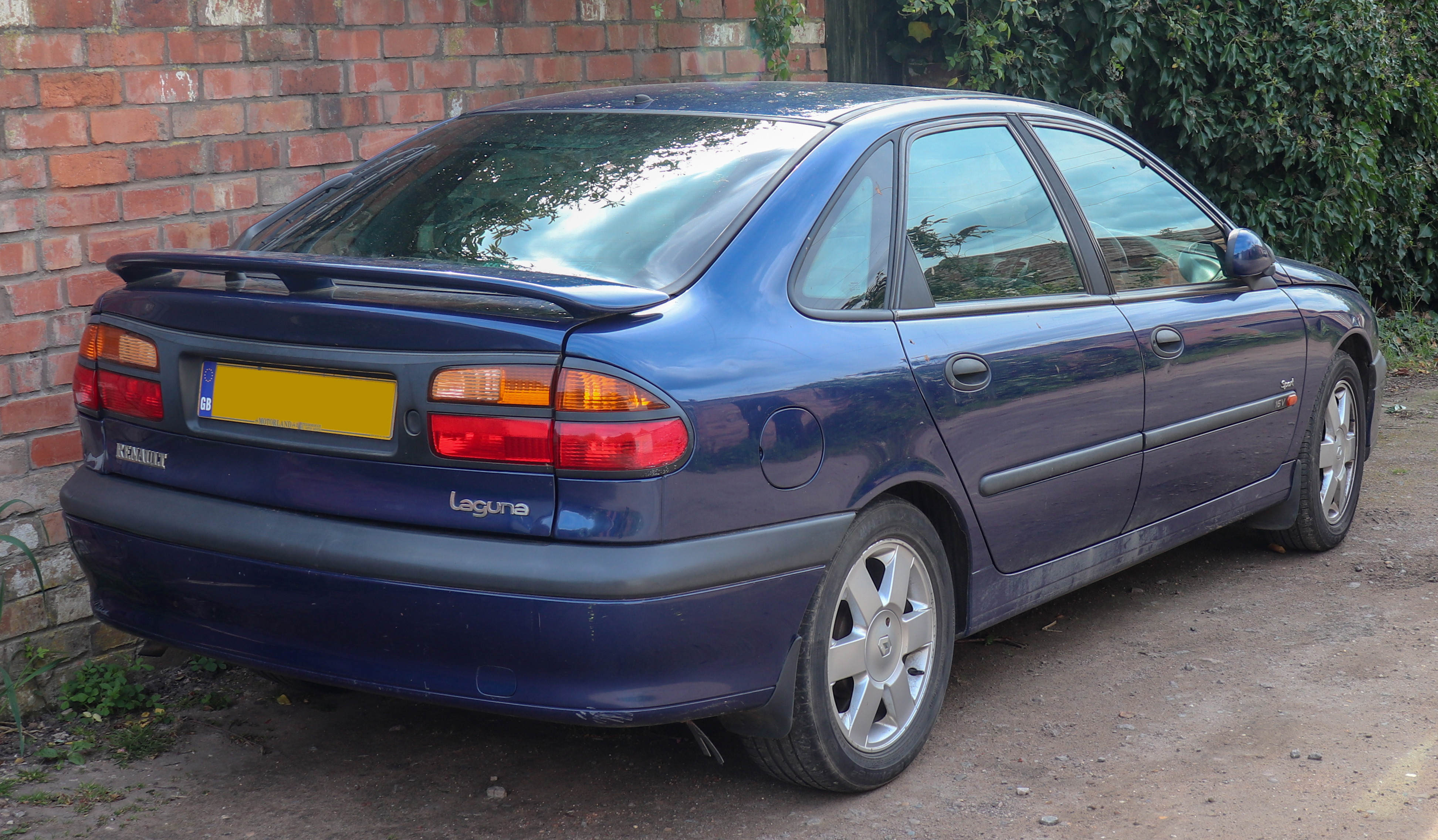 2000 Renault Laguna Sport 1.8 Rear Taken in Leamington Spa